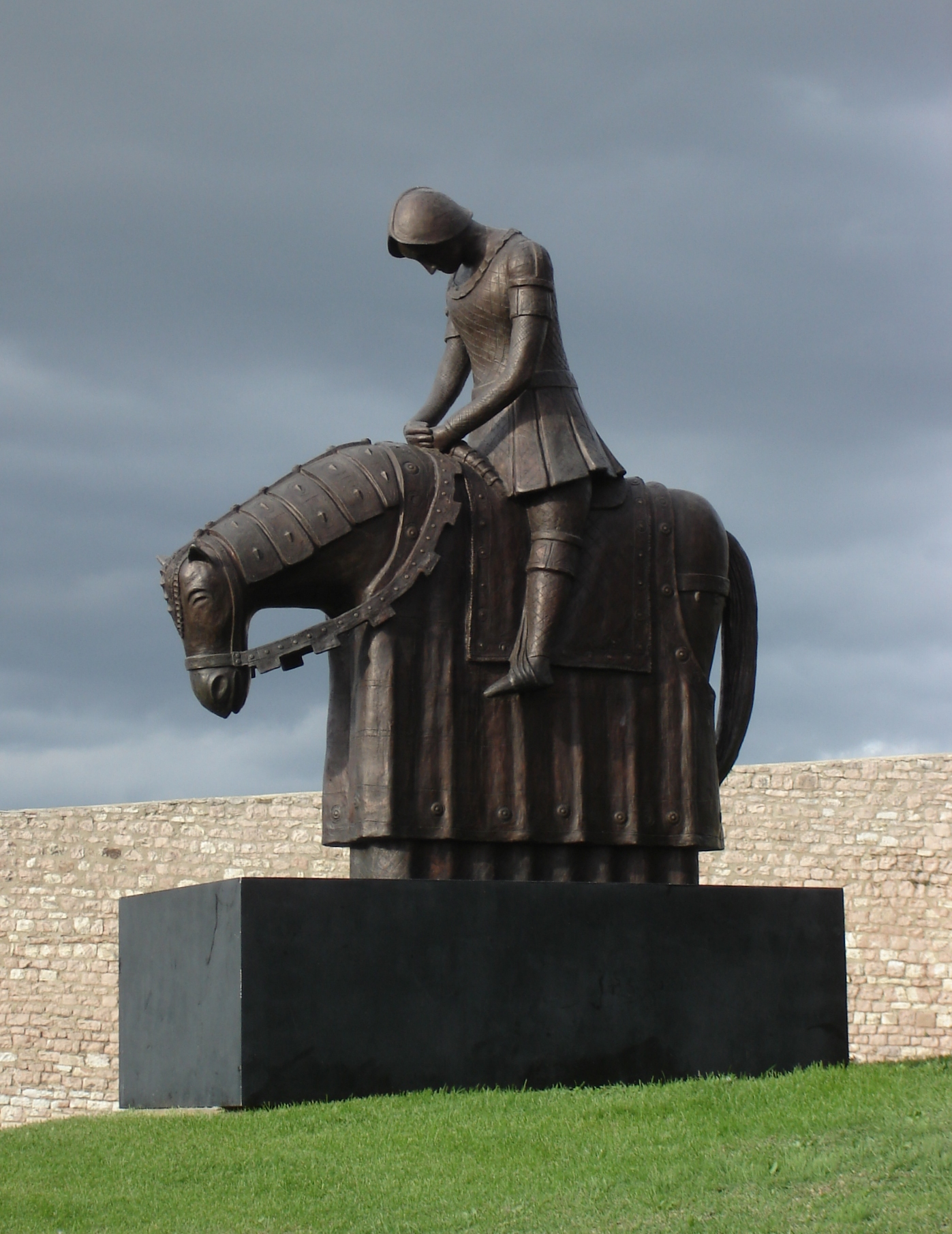 Statue of St. Francis in front of the Basilica in Assisi.